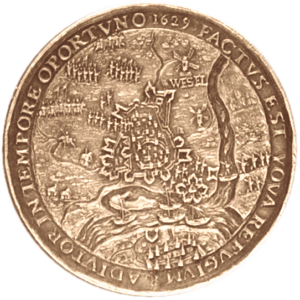 Siege of Wesel coin (Germany)